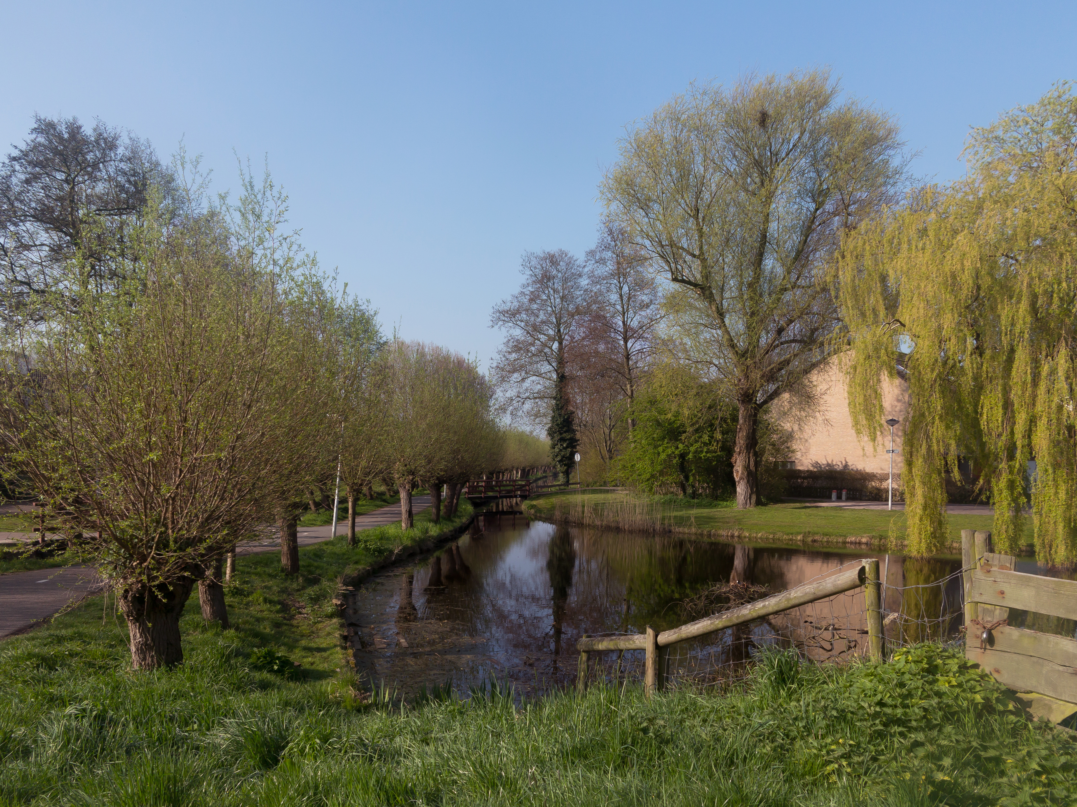 Leiden-Merenwijk, street view: probably the Broekweg